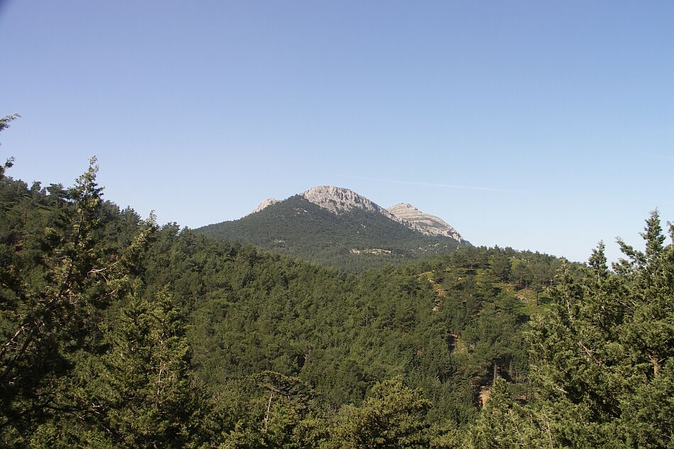 Akramitis Mountain, Rhodes Island, Greece